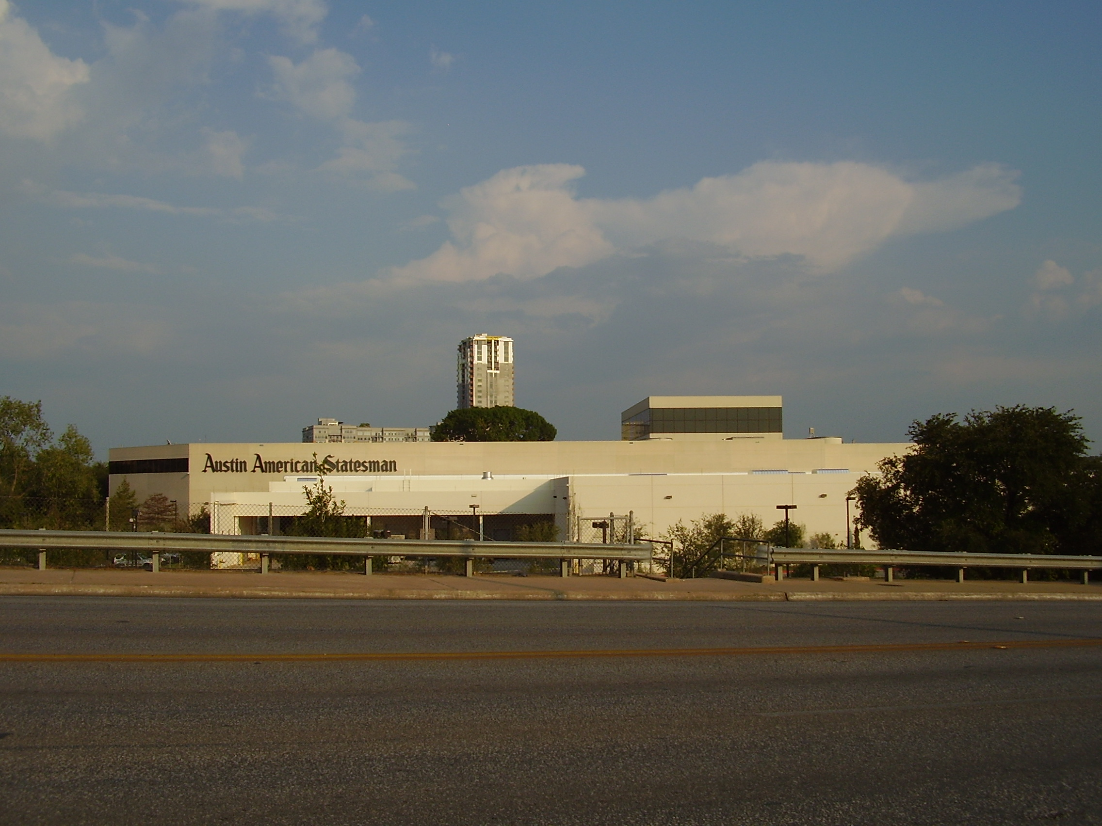 Austin American-Statesman headquarters